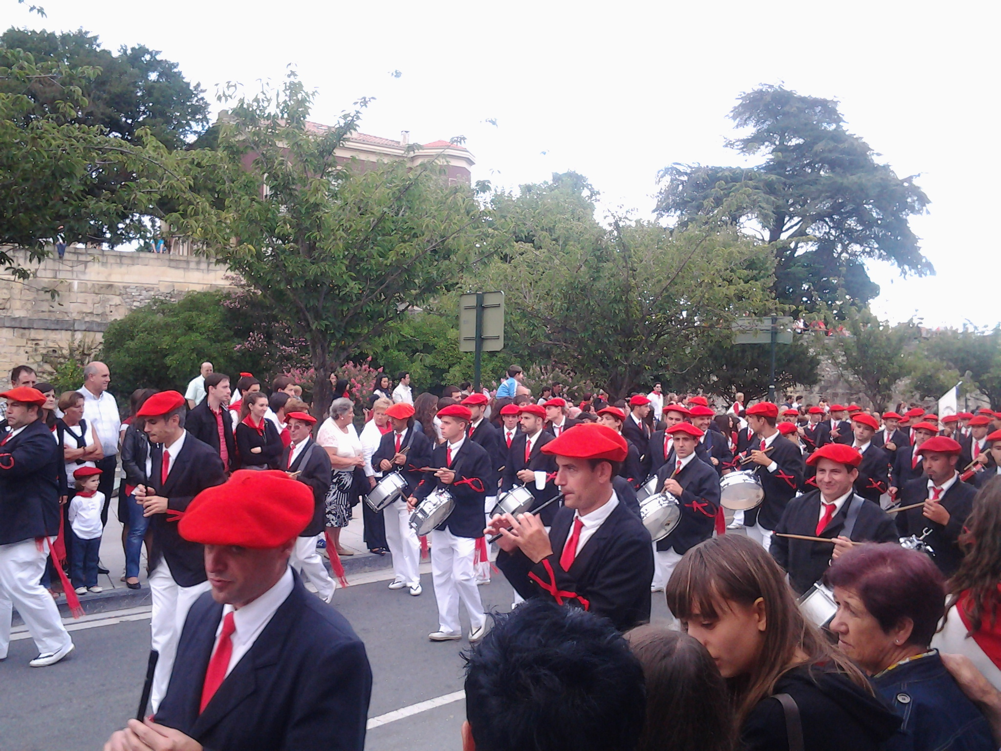 2013 alarde in Hondarribia.